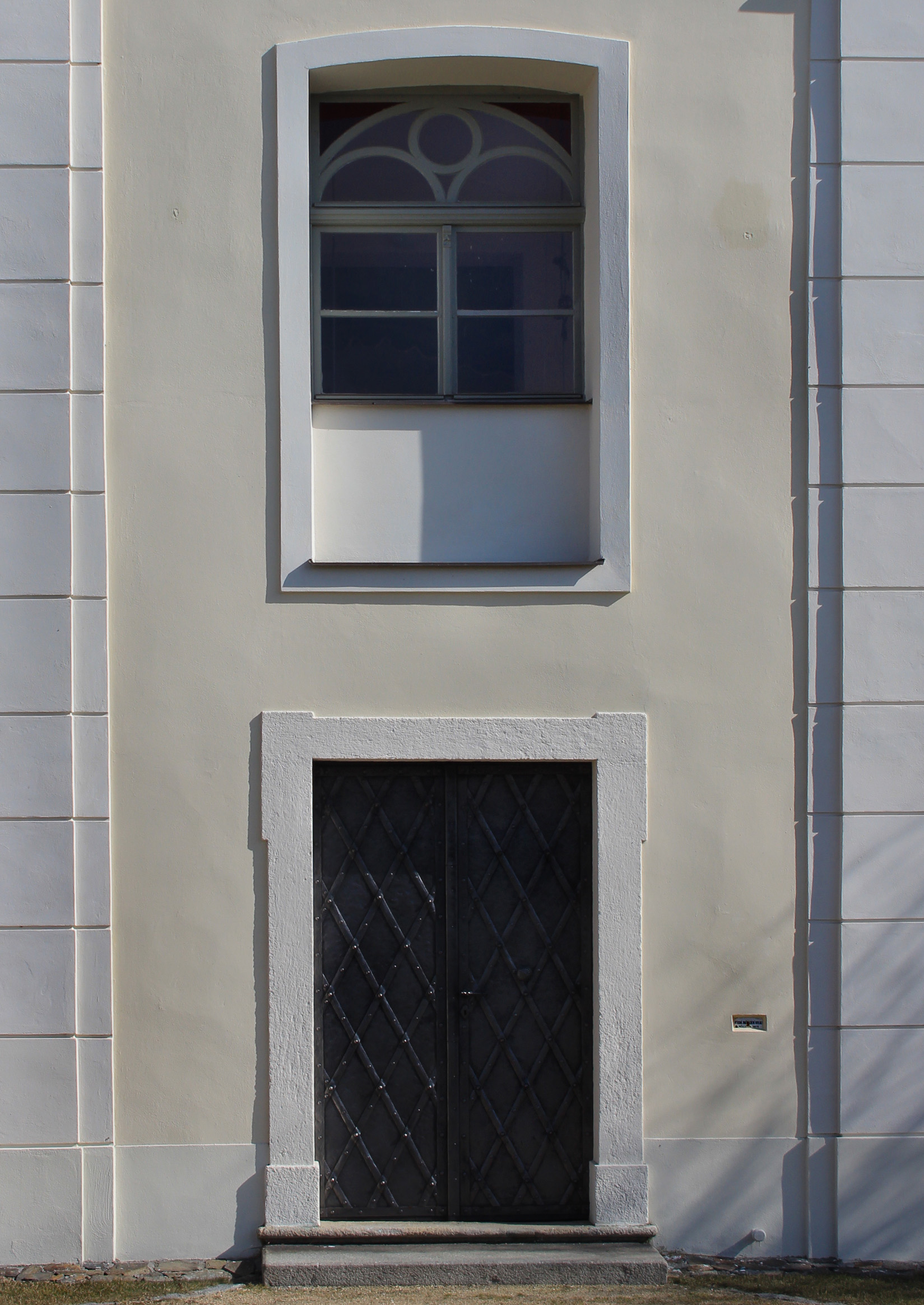 Chapel in Ostrov u Stříbra, part of Kostelec, Czech Republic.